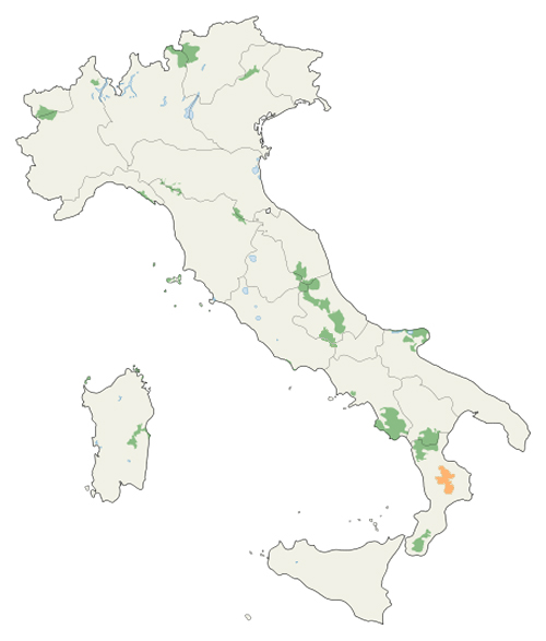 Sila national park.